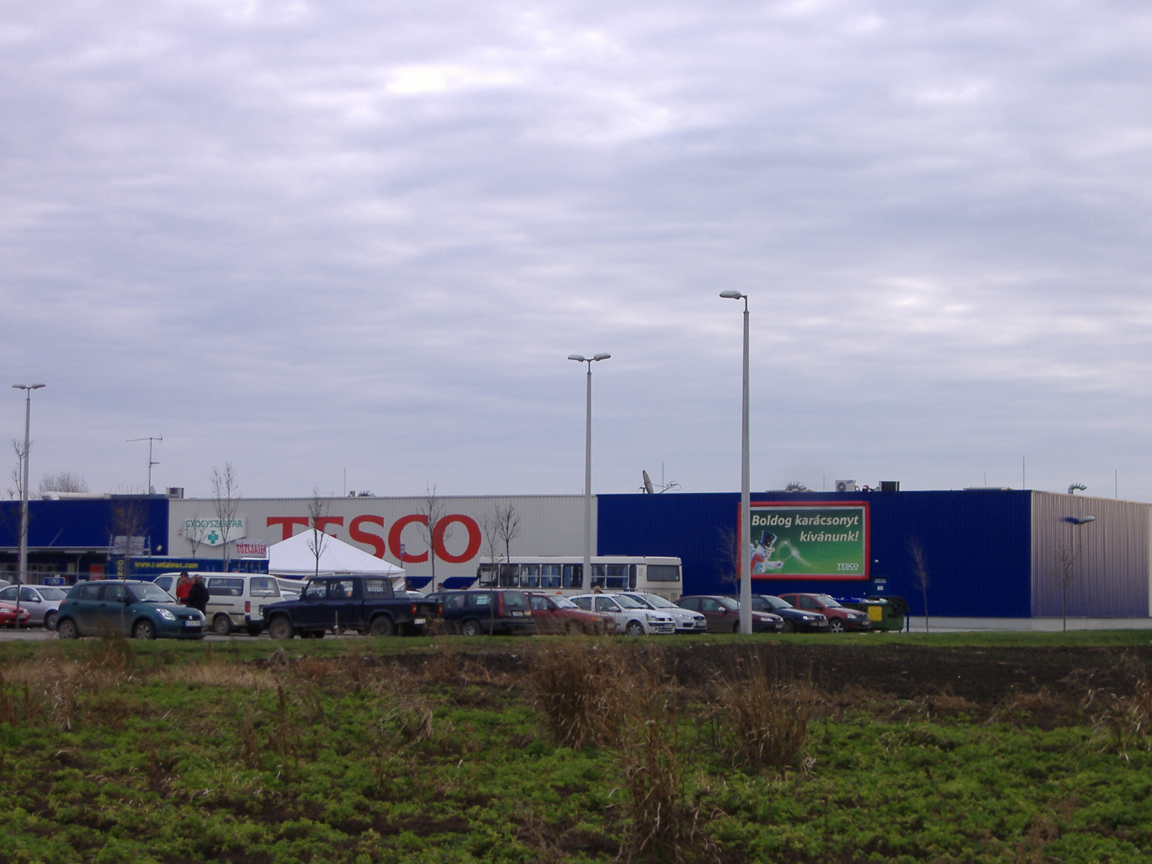 Tesco hipermarket in Makó, Hungary.